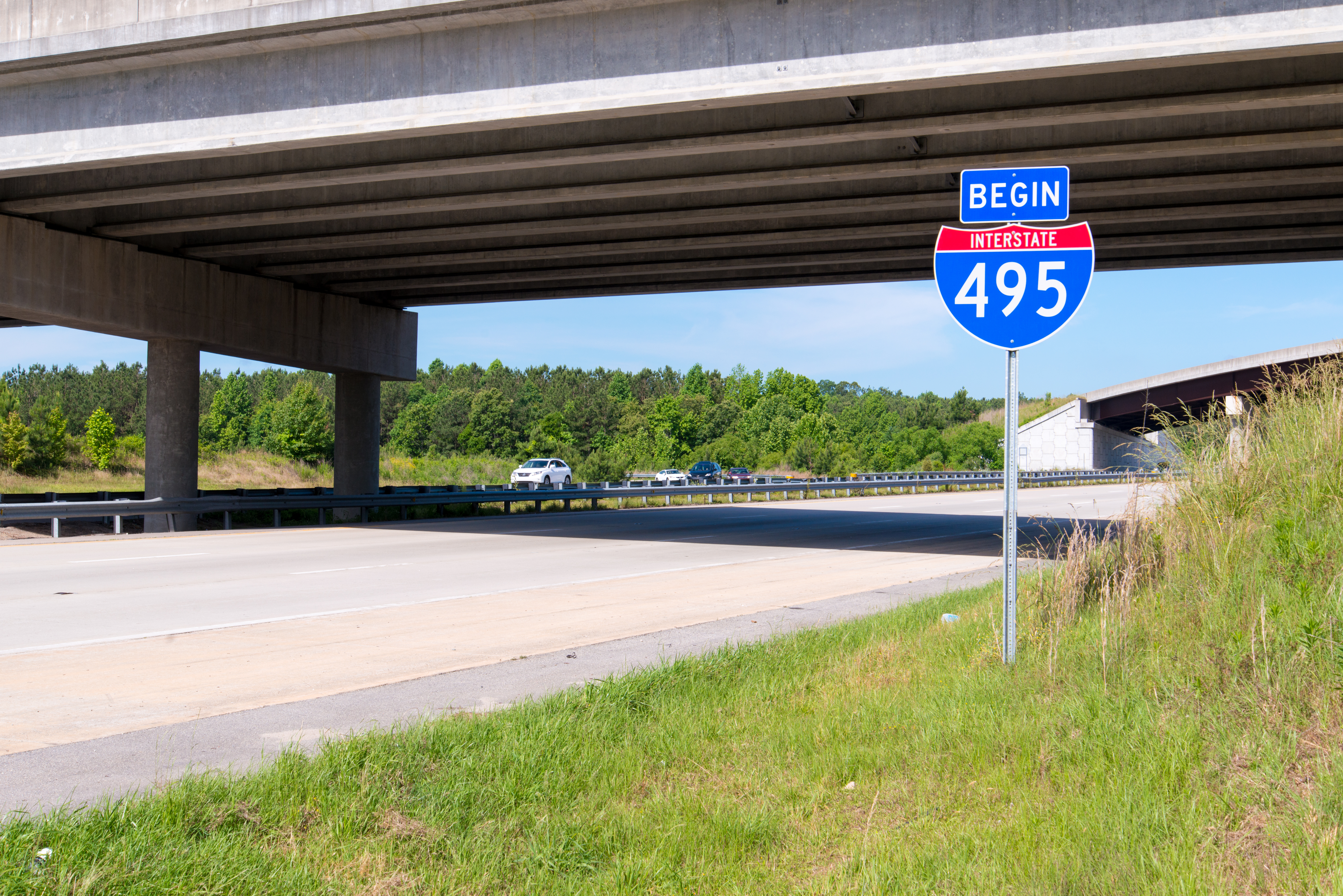 Another shot of the southbound I-495 begin sign, at exit 423 near Knightdale.